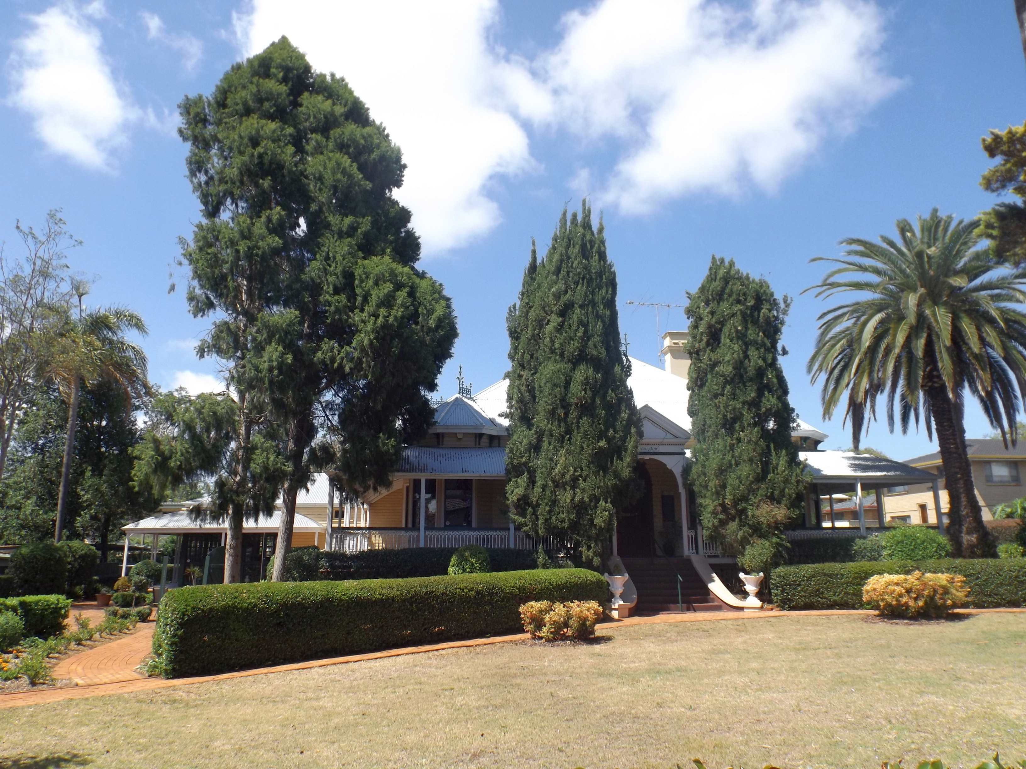 Photo of the front of Kensington in Toowoomba City, Queensland, Australia.